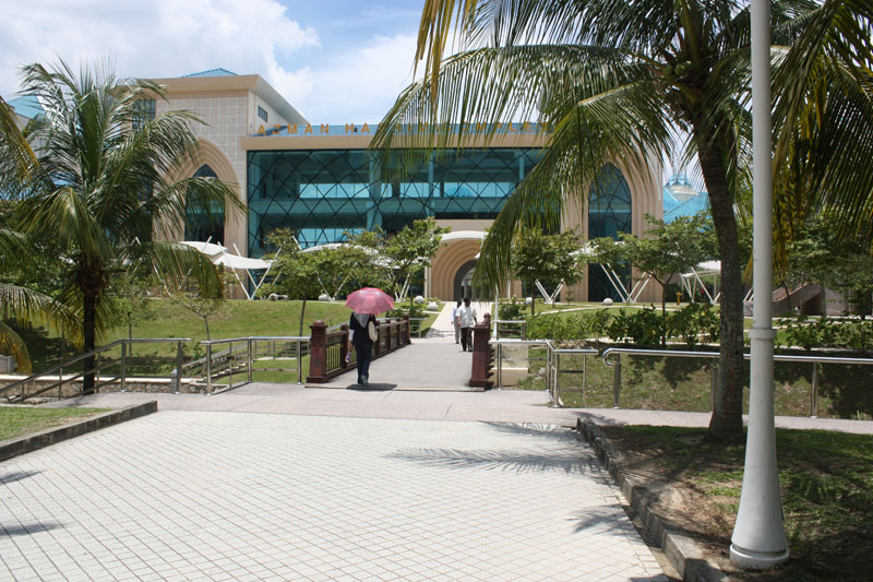 International Islamic University of Malaysia - bridge on the river